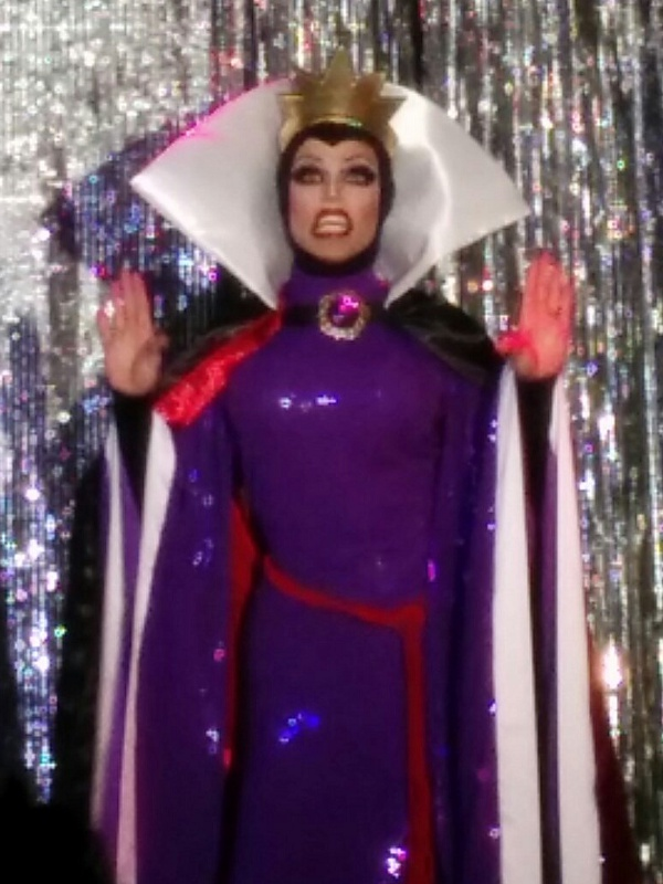 Morgan McMichaels performing a medley as the Evil Queen at Micky's in Los Angeles, California, United States